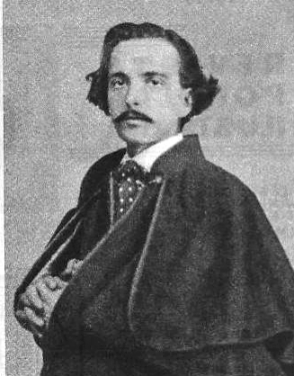 Spanish painter Manuel Garcia Hispaleto (1836-1898), cropped and re-toned from the original